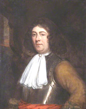 Portrait of Sir John Chichester (1598-1669) of Hall, Bishop's Tawton, Devon. English School c.1650, National Trust, Arlington Court, Devon, collection, ref:987416. Oil on canvas, 74 x 60 cm. Bequeathed by Miss Rosalie Chichester of Arlington Court, 1949